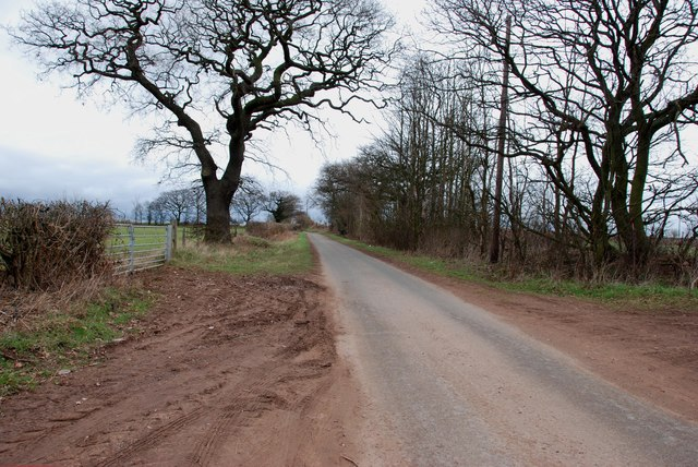 Country lane in Swinfen, Staffordshire, England, on the lower southern slope of Offlow hill, after which Offlow Hundred is named. Looking north towards the summit (112 metres) which now has a radio mast, but this is out of view.